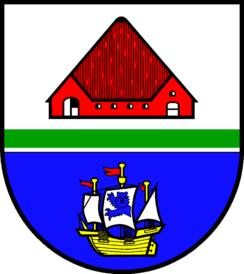 Coat of arms of the municipality Tating in Schleswig-Holstein, Germany.